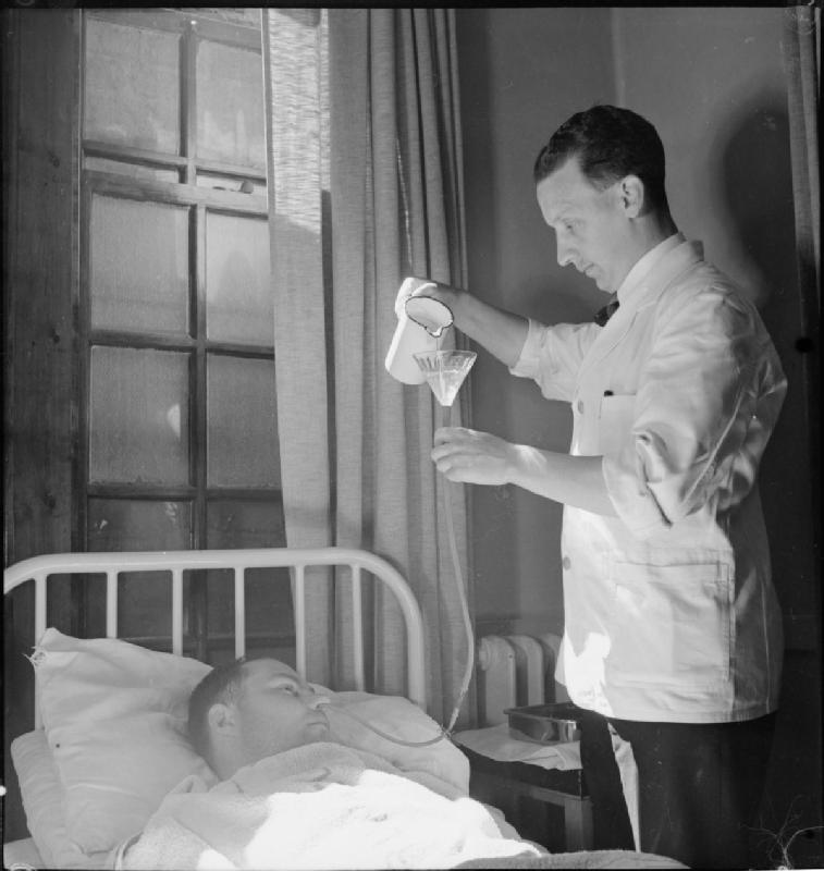 Male Nurses- Life at Runwell Hospital, Wickford, Essex, 1943 A male nurse gives glucose to a patient undergoing Insulin Shock Therapy at Runwell Hospital. The glucose is being poured from a jug into a funnel and down a tube which goes into the patient's nose.